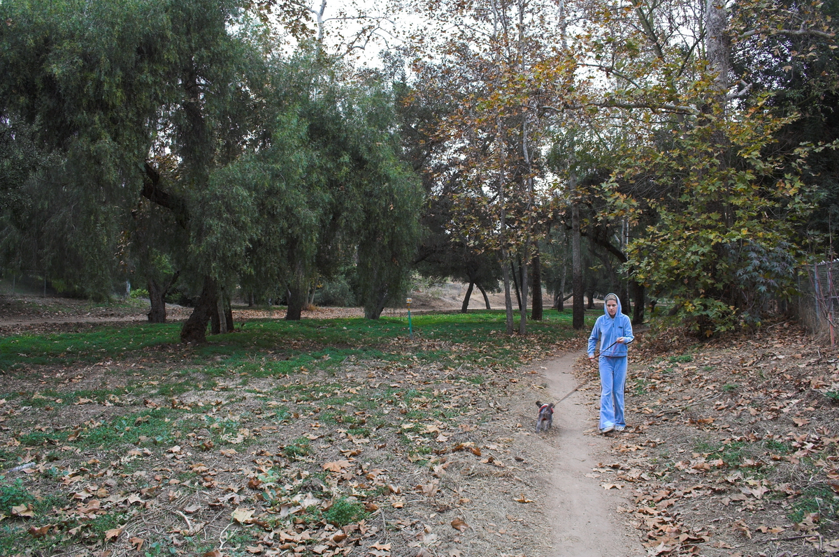 Hiltscher Park in Fullerton, California.